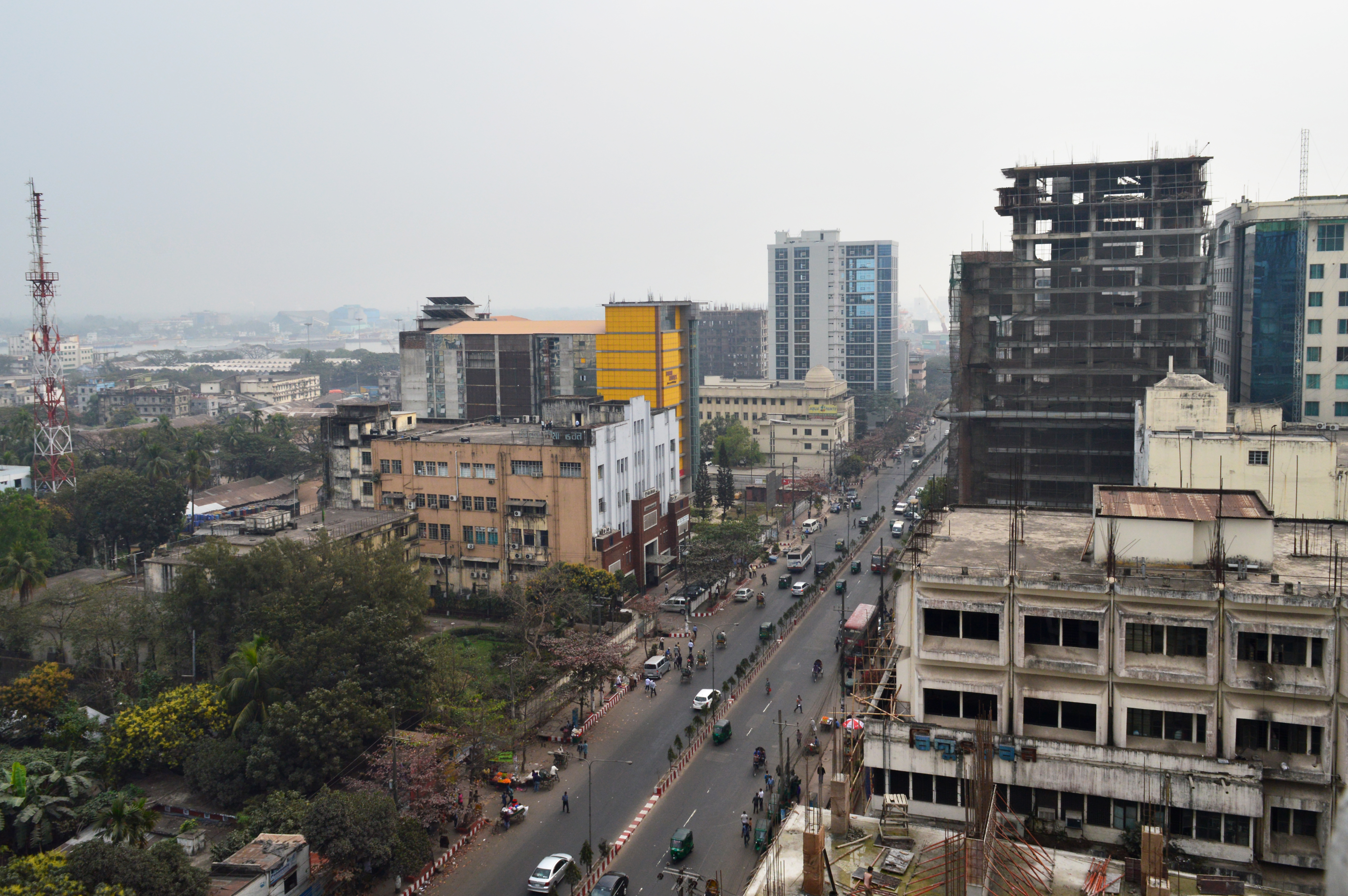 Sheikh Mujib Road (aerial view, south exposure) from C&F Tower, Agrabad, Chittagong. This road was named after Sheikh Mujibur Rahman, the independence leader of Bangladesh.